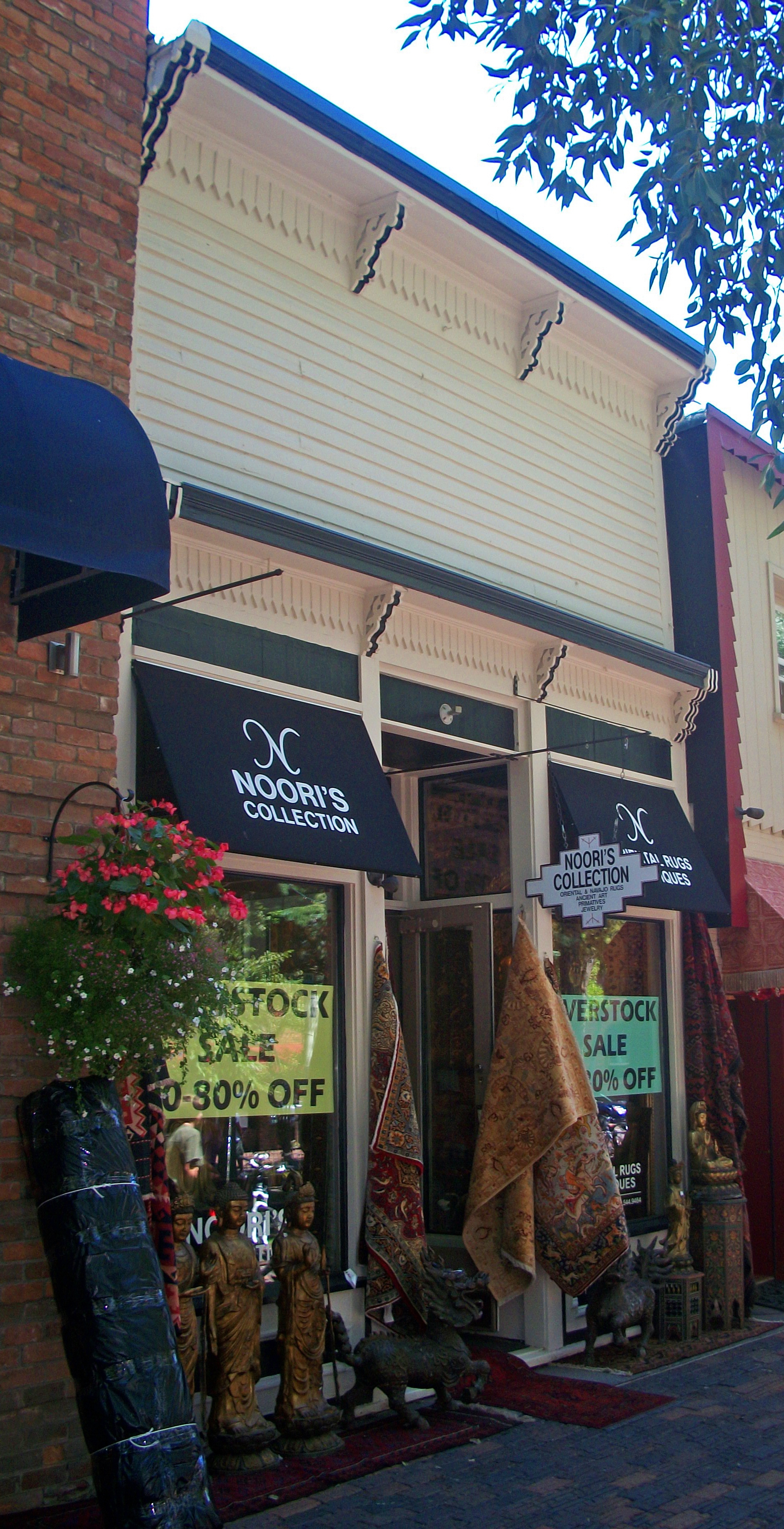 Riede's City Bakery building, one of only two remaining pre-1890 wood frame commercial buildings in Aspen, CO, USA